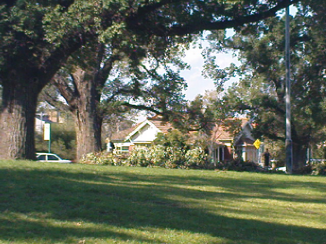 The Princes Park in Parkville